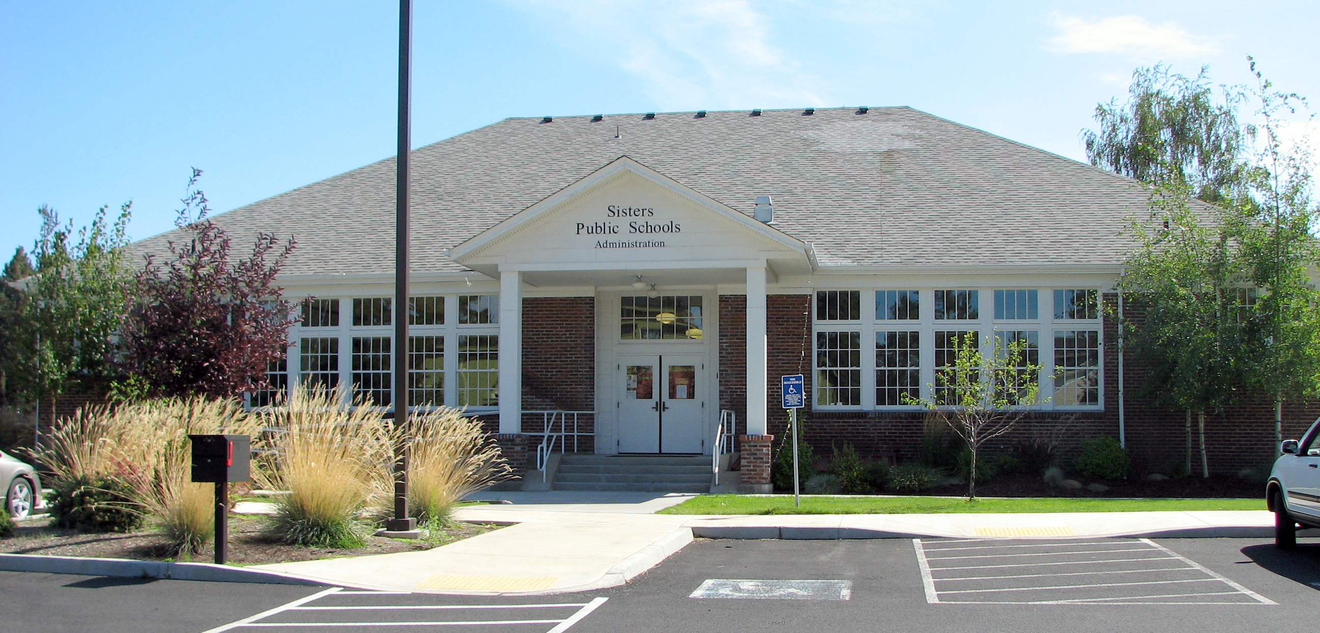 The Sisters School District administration building, which is formerly the home of Sisters High School, located at 115 North Locust Street in Sisters, Oregon, United States, is listed on the US National Register of Historic Places.